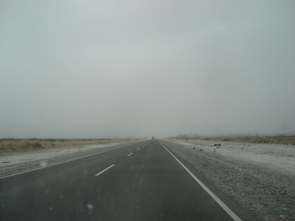 National Road 237, near Picún Leufú city in Neuquén Province, Argentina.